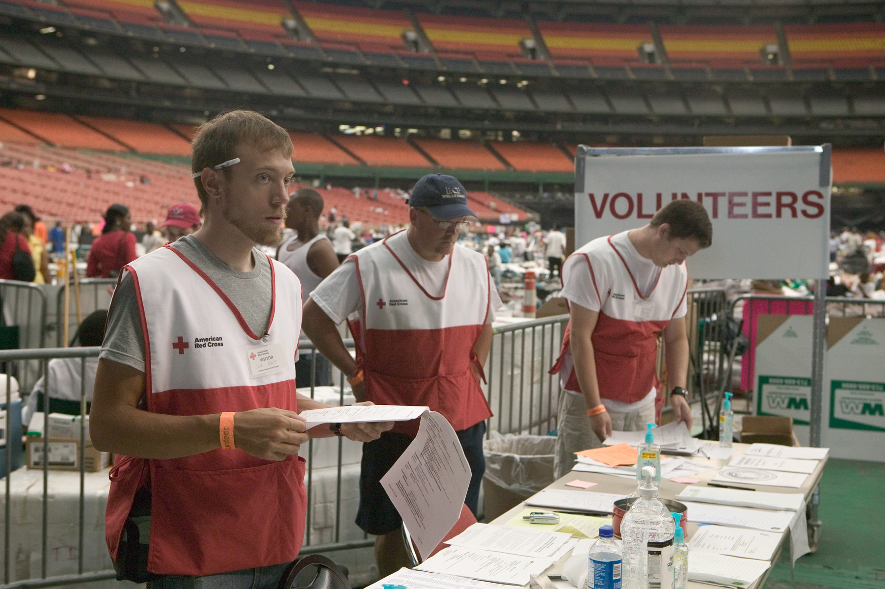 Houston,TX.,9/10/2005--Volunteers assist Hurricane victims at the Houston Astrodome. following Hurricane Katrina. FEMA photo/Andrea Booher